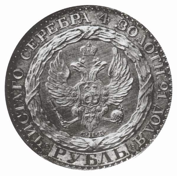 Obverse of the Constantine rouble from Hermitage, St. Petersburg This is a pattern coin (rouble) of Grand Duke Constantine Pavlovich of Russia. This type was never issued, it remained a pattern.